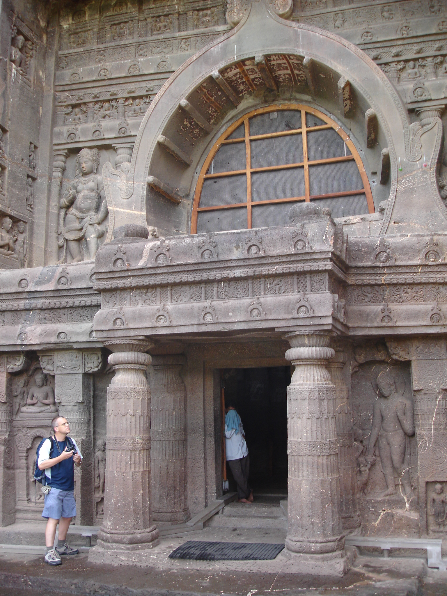 thumb|200px|right|Ajanta Caves